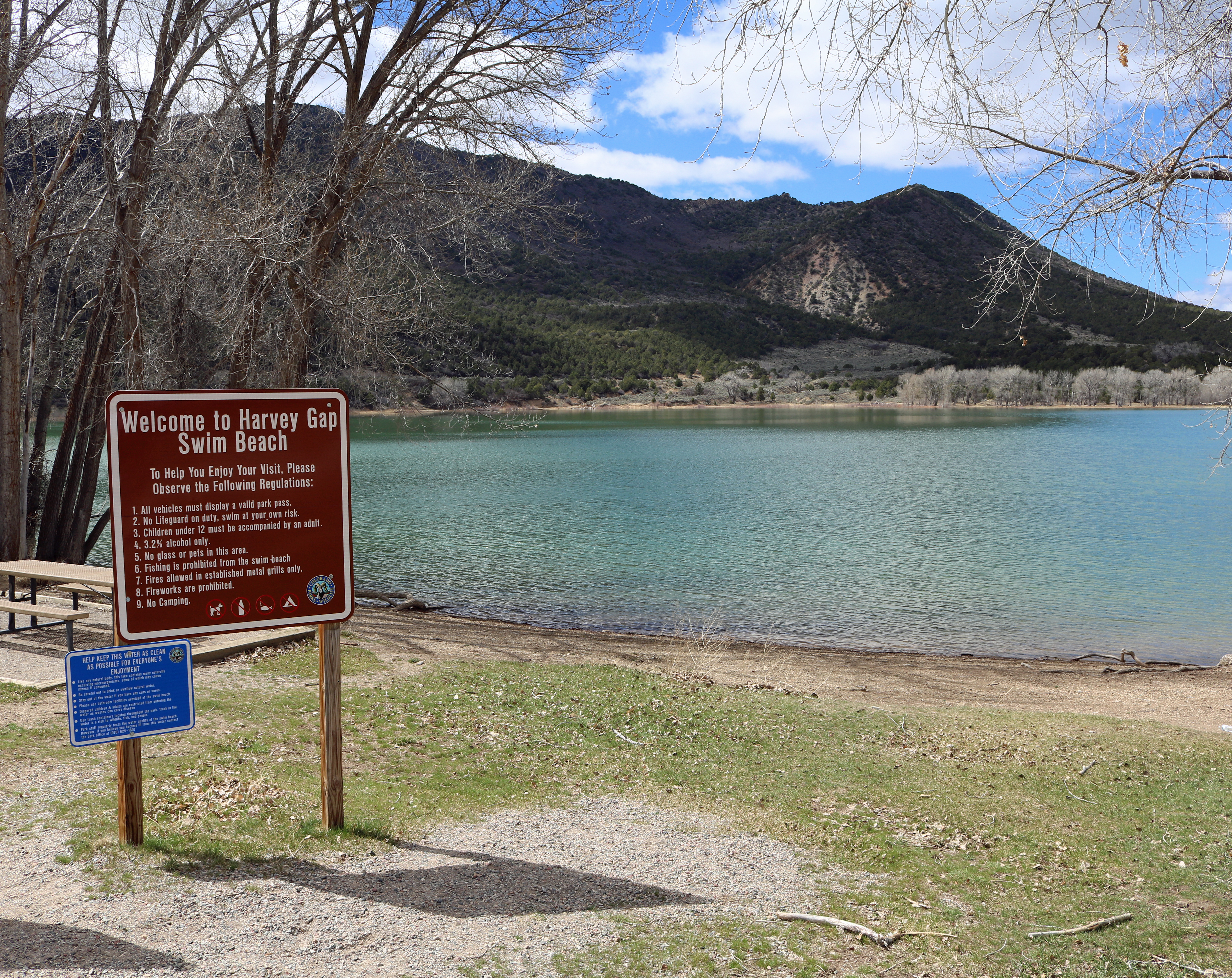 Harvey Gap State Park in Garfield County, Colorado. The reservoir is called Grass Valley Reservoir.